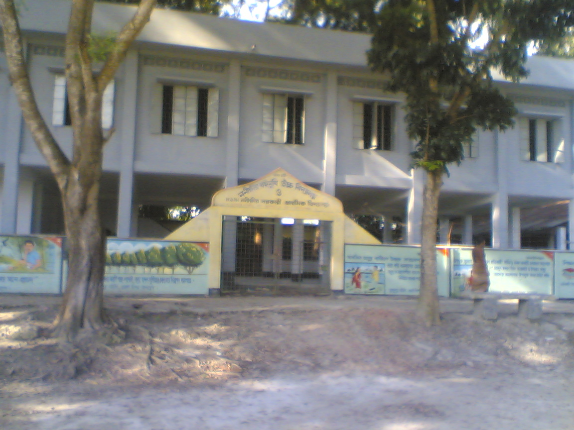 Nanikhir High School, photo taken by Me (Shemul)